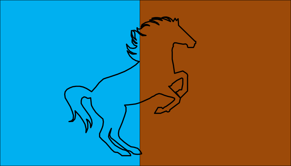 Flag of Boulmane Province